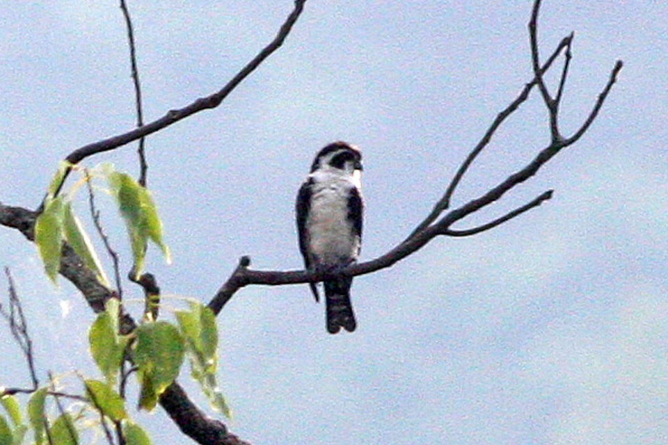 Wuyuan to Wuyi National Park, Jiangxi